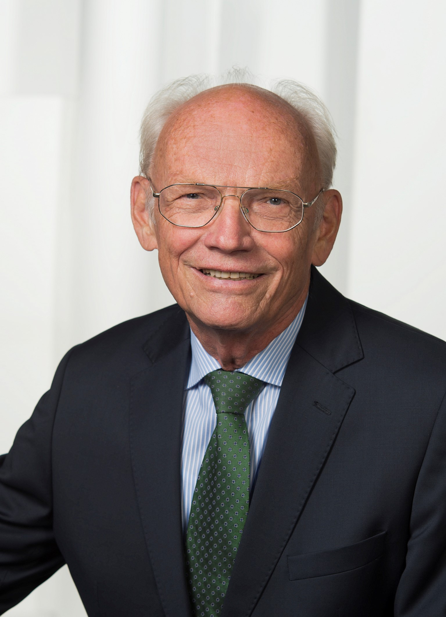 Günter Stummvoll Portrait